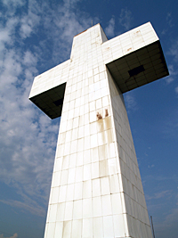 Bald Knob Cross west of Alto Pass, Illinois. Photograph by Peter Stork. Saturday, August 26, 2006.